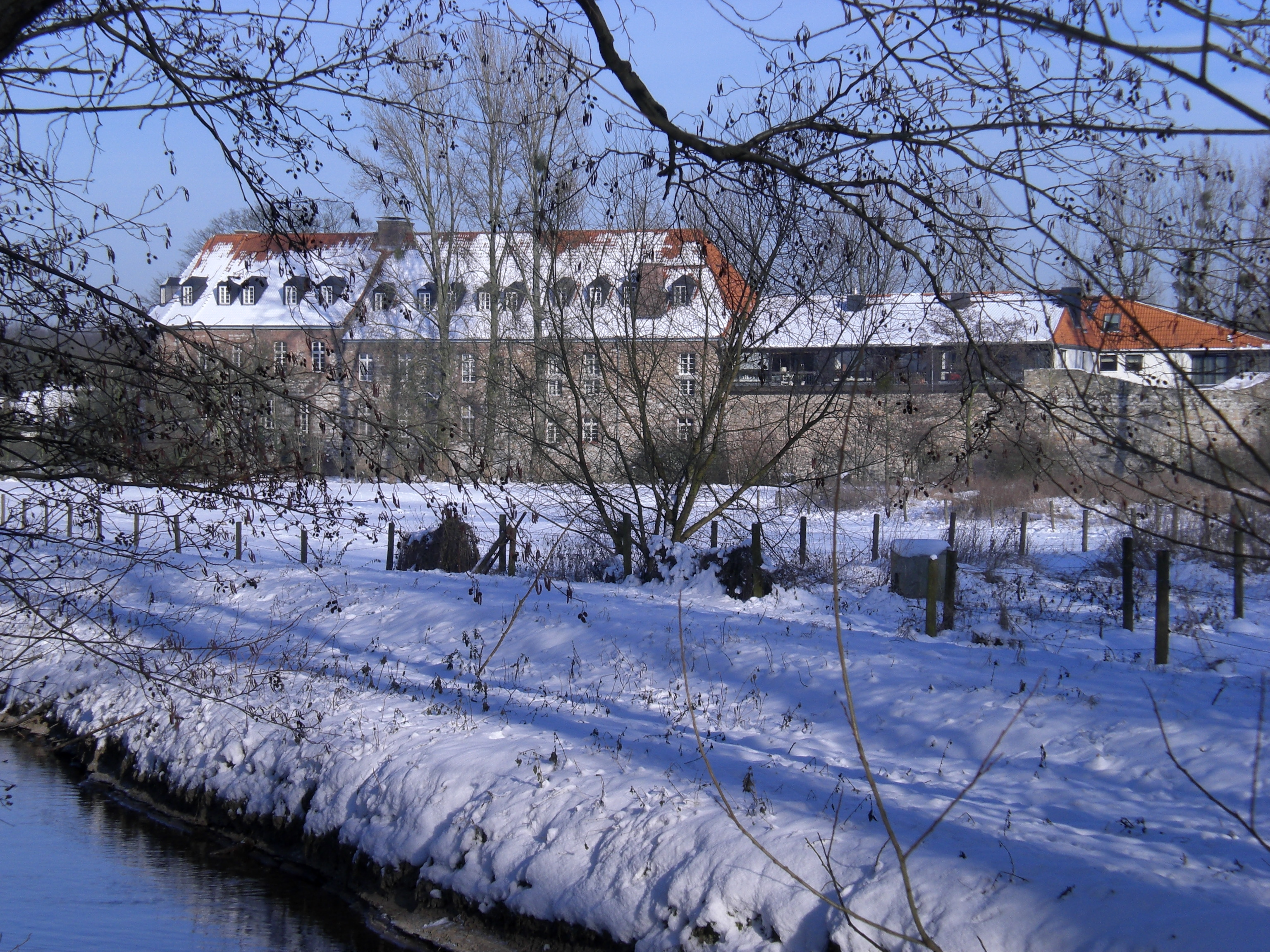 Burg Angermund